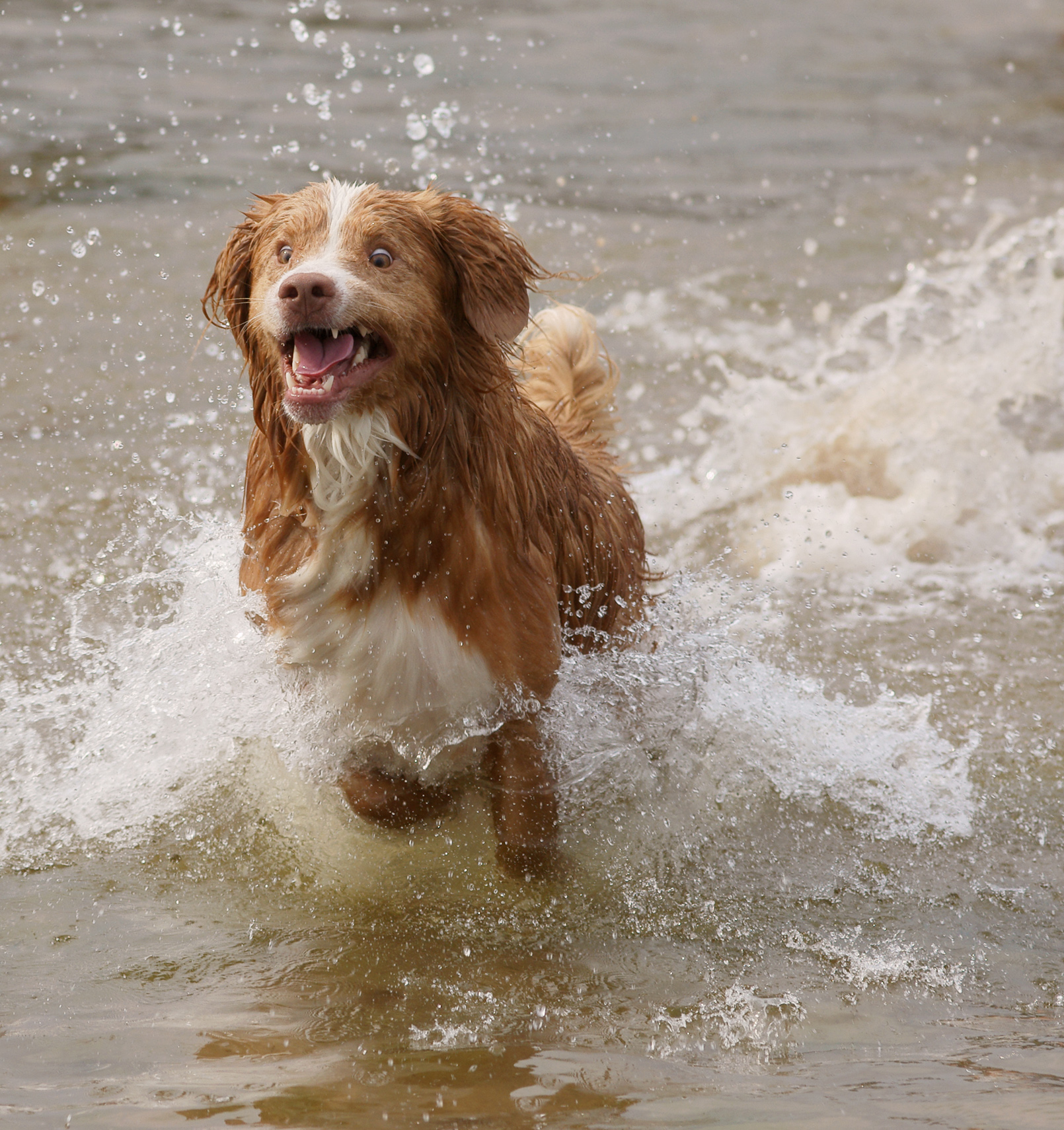 Dog looking for his ball.